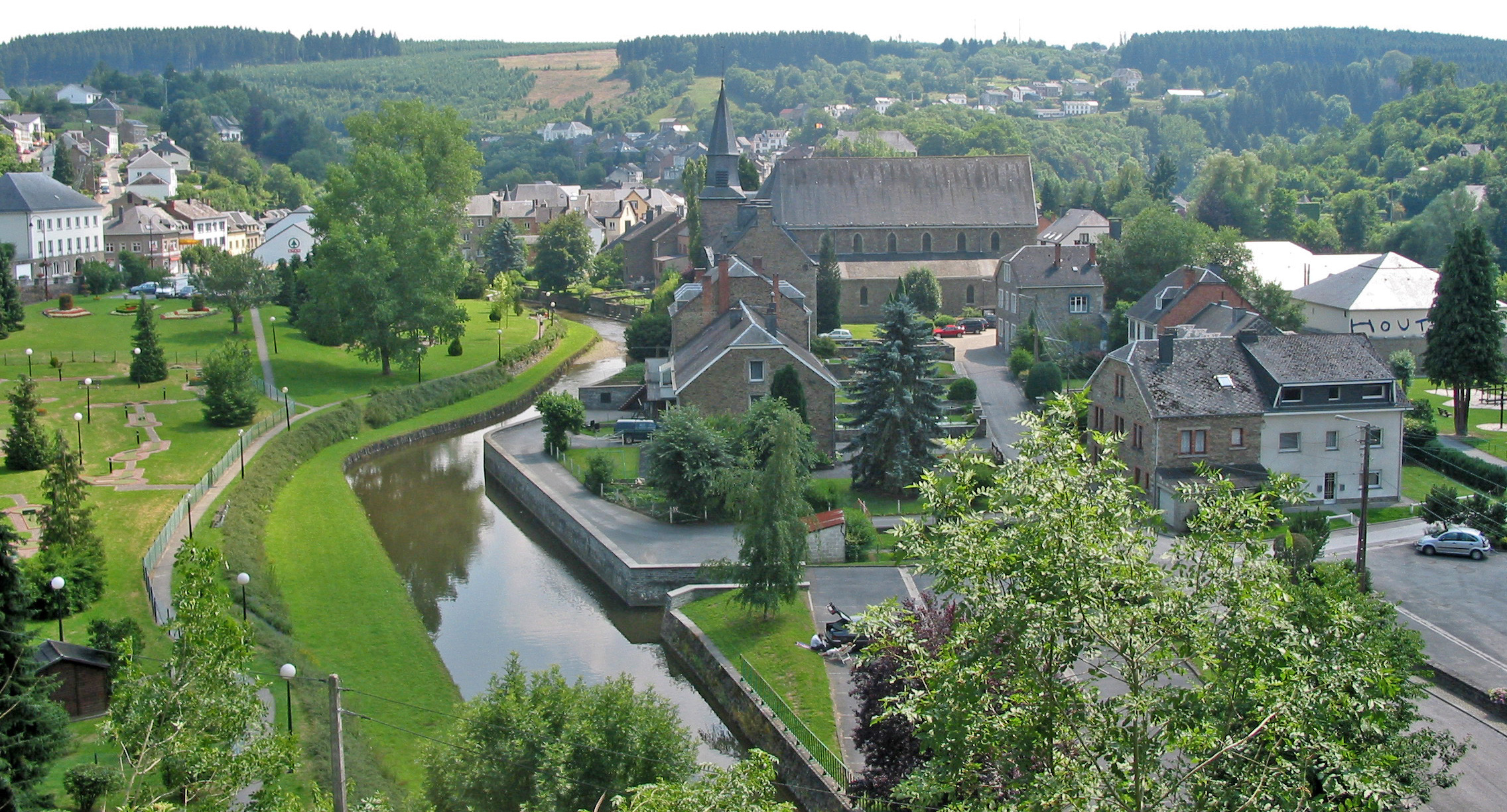 Houffalize (Belgium), overview on the city.